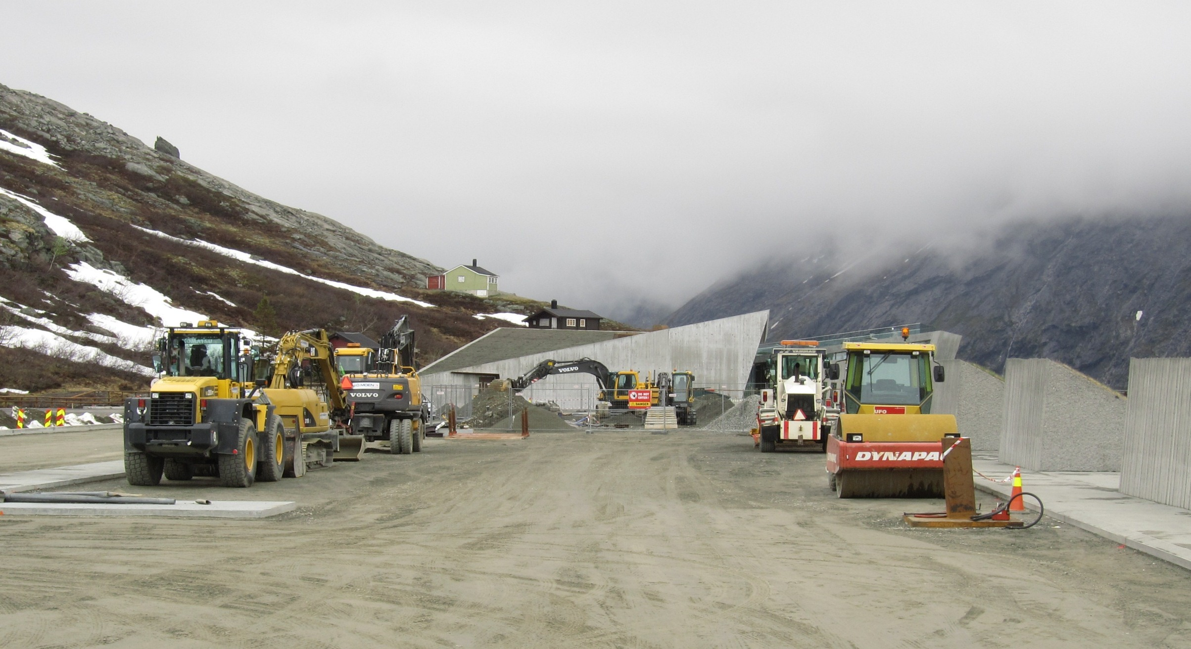 Trollstigen mt pass, new visitor center, 5 days before opening.